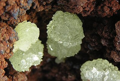 Austinite Locality: Ojuela Mine, Mapimí, Municipio de Mapimí, Durango, Mexico (Locality at ) Size: 8.4 x 7.4 x 5.4 cm. No, this is not a mediocre specimen of adamite, but a specimen of AUSTINITE (Calcium Zinc Arsenate Hydroxide) on limonite matrix - a rarity in fine crystals such as these, from Mina Ojuela. These translucent green clusters measure to one centimeter and are superb for the species. One of them is partial, allowing you to see the radial acicular structure.